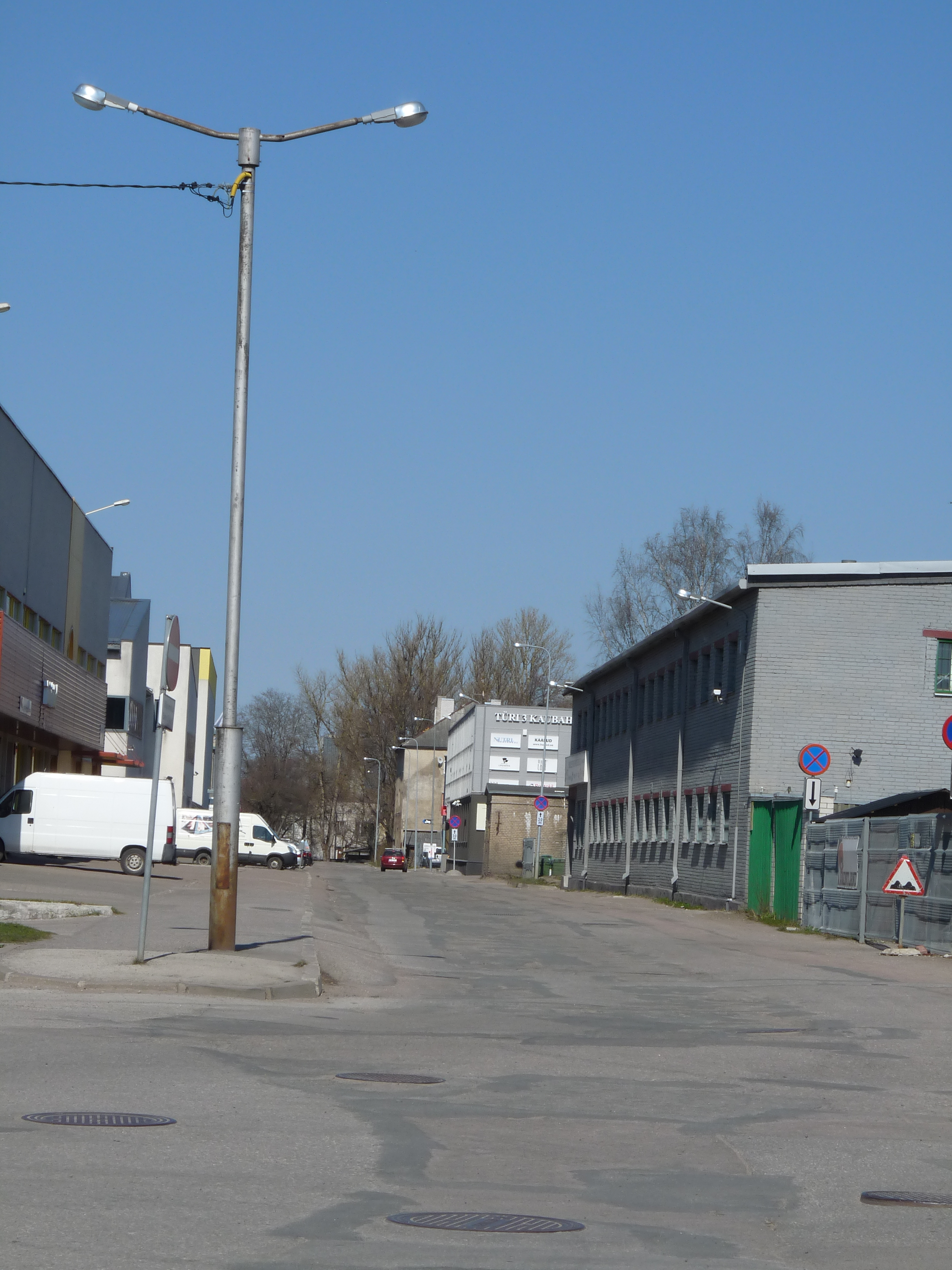 Türi street in Tallinn, Estonia